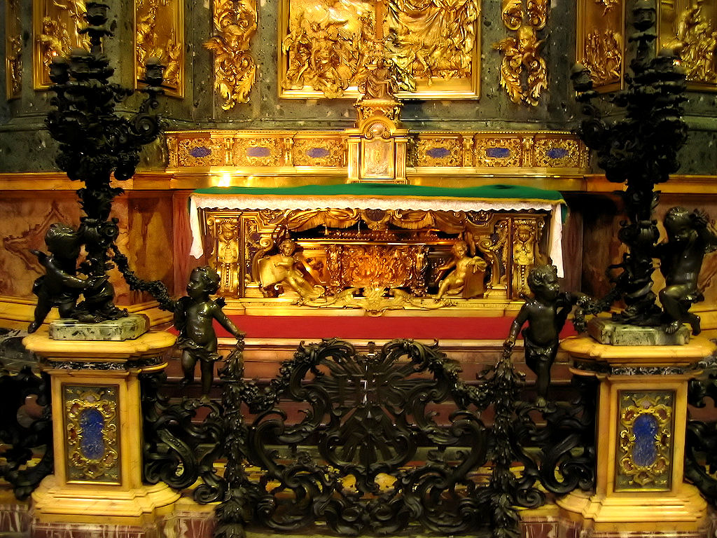 Urn of St. Ignatius by Alessandro Algardi, Il Gesù, Rome.